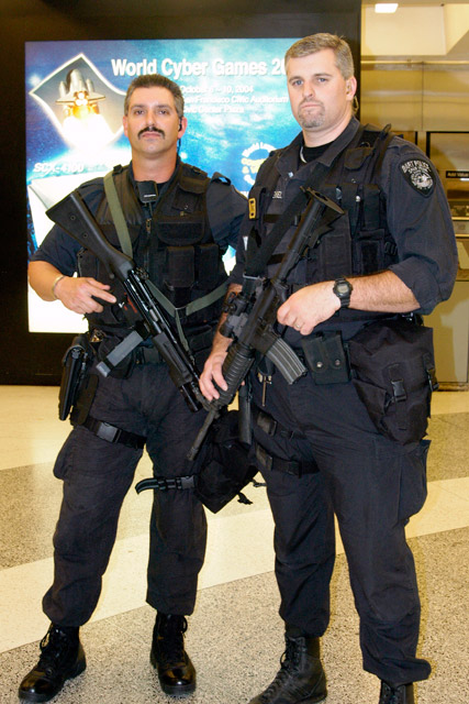 San Francisco Bay Area Rapid Response Team.